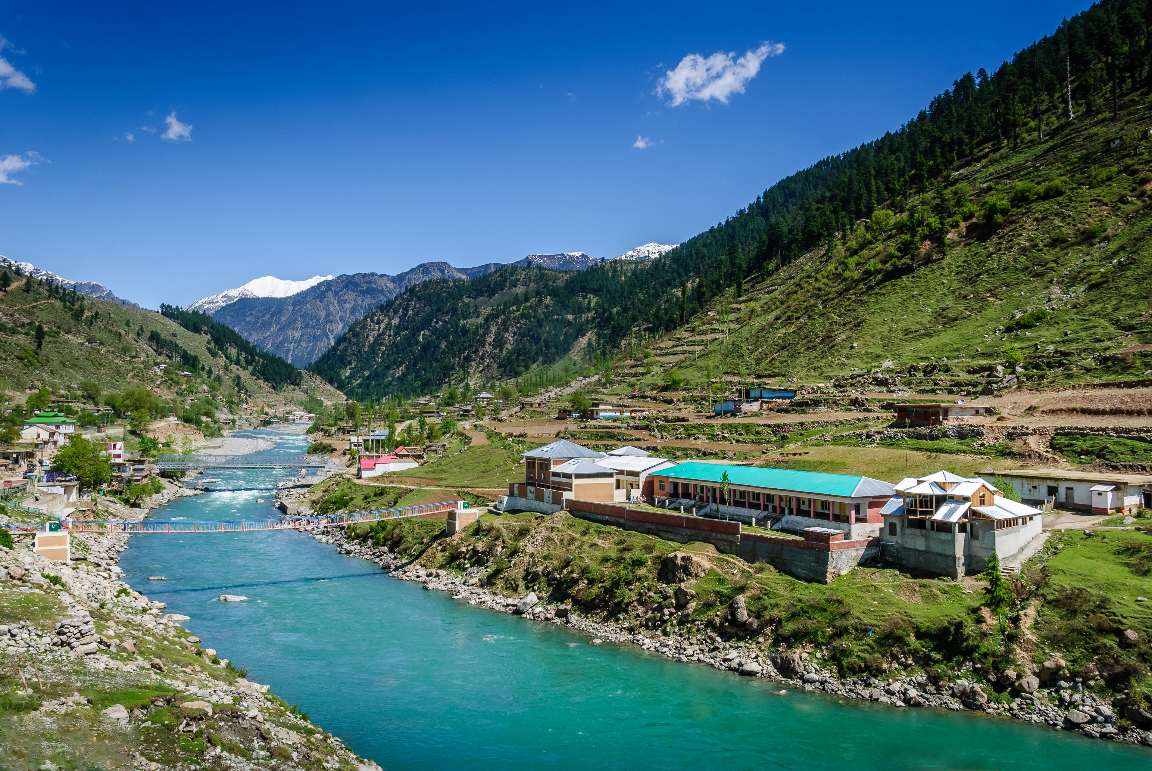 river swat Pakistan